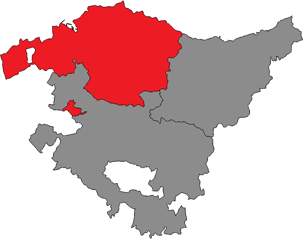 Basque Parliament district of Biscay.